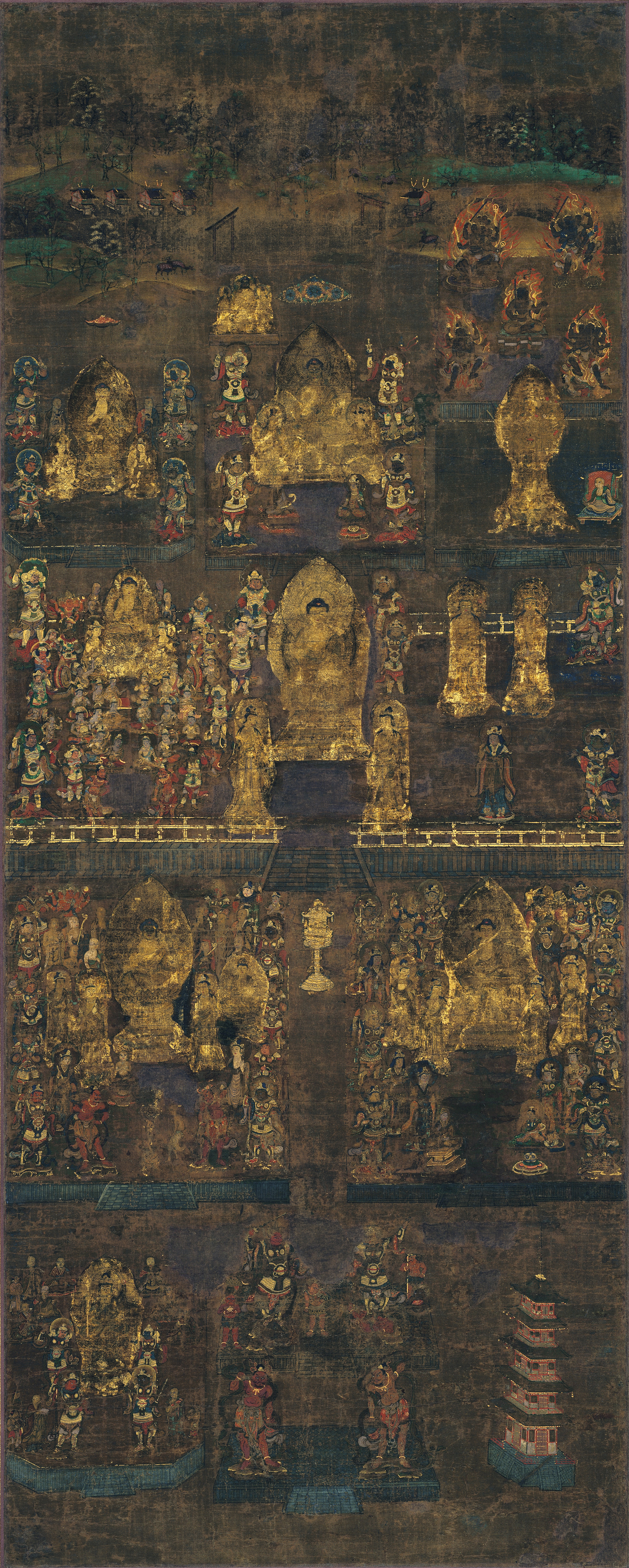 Kofukuji Mandala, Kyoto National Museum, Japan